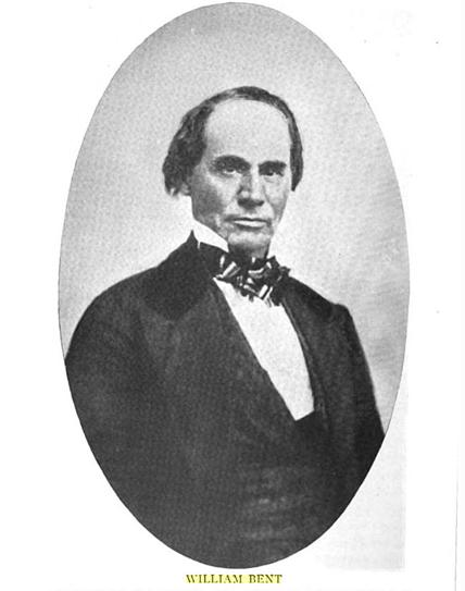 William Bent - 1809 to 1869 - Trading empire, published in 1914